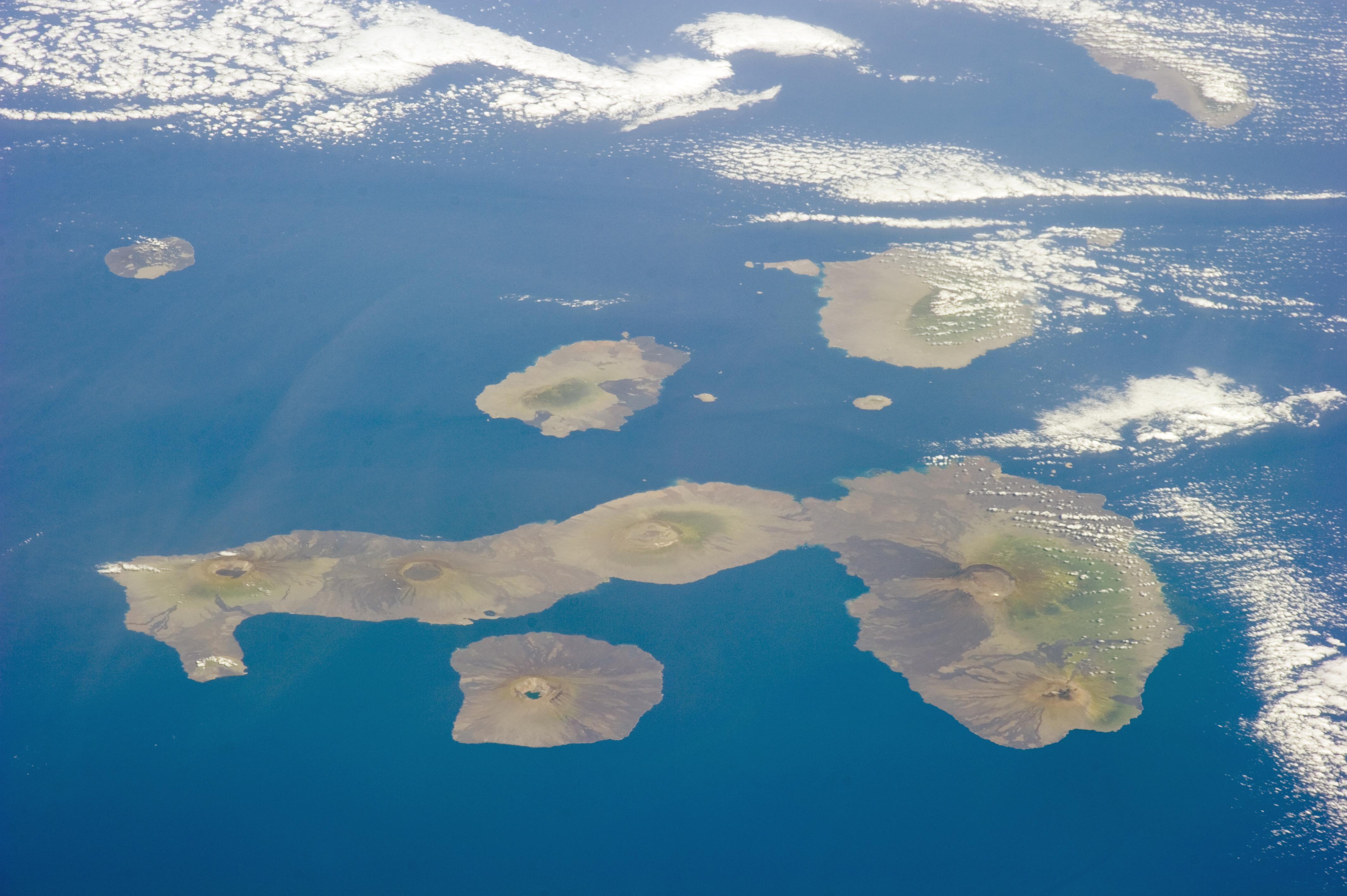 One of the Expedition 38 crew members aboard the International Space Station used a 180mm lens to photograph this oblique image featuring the Galapagos Islands or Islas Galapagos, distributed on either side of the Equator in the eastern Pacific Ocean. An archipelago of volcanic islands, the group's official name is Archipielago de Colon.